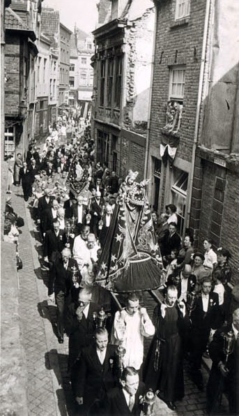 View of Stokstraat in Maastricht, Netherlands, during the 1953 Easter Monday procession, including the statue of Our Lady, Star of the Sea.